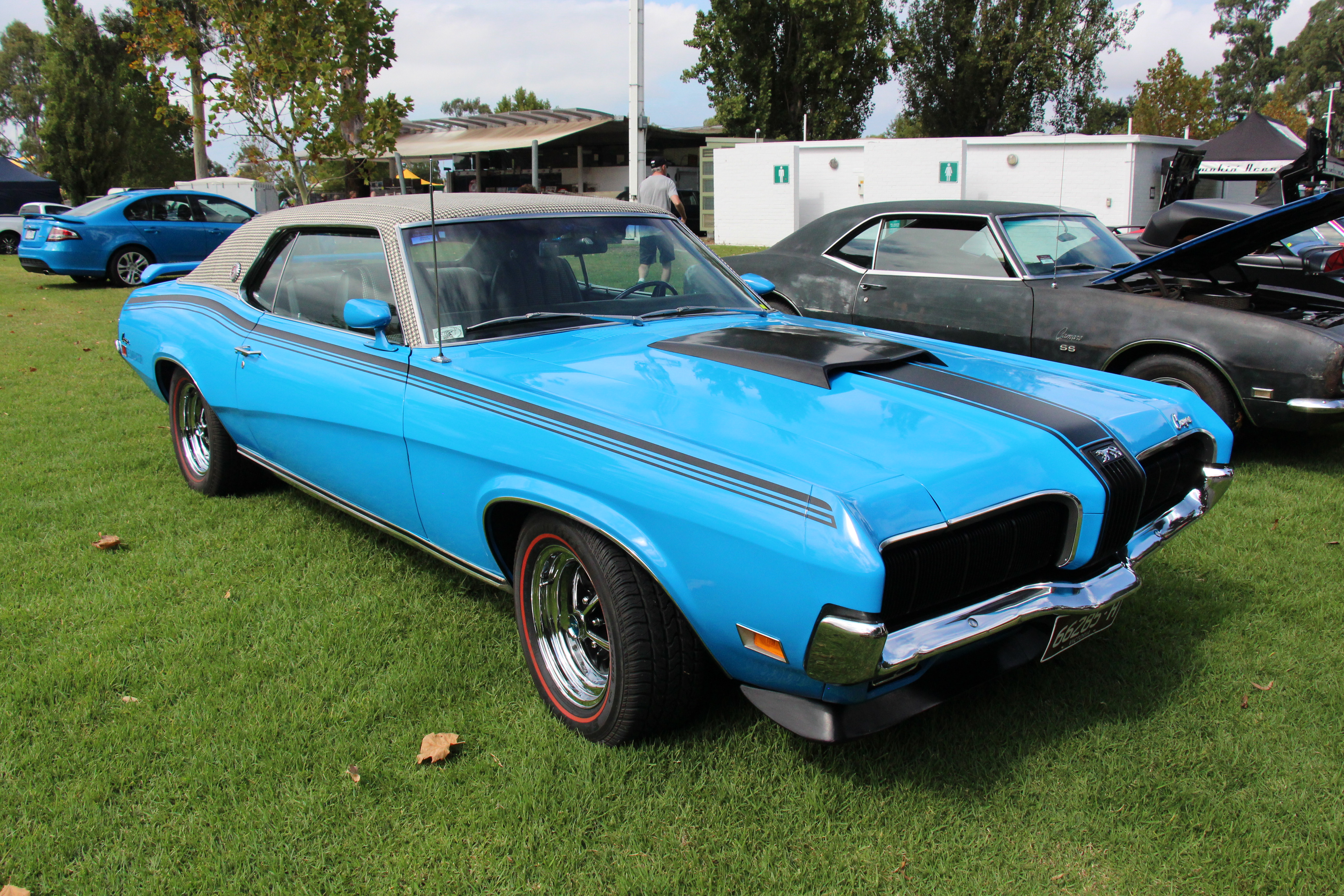 Grabber Blue. Edsel Ford introduced the Mercury in 1939 as a model to fill the gap between the basic Ford, and the luxury Lincoln. The Mercury Cougar was based on Fords pony car, the Mustang from 1967-73, then the Ford Torino form 1974-80. The first generation Cougar was built from 1967-70, it was 3 inches longer than the Mustang and more luxurious. In 1967, it got a full-width 'electric shaver' grille with hidden headlamps, base or the luxury XR-7. GT Performance package available. In 1968, the Cougar got side marker lights. The XR-7Gs got hood scoop, fog lamps, and hood pins. The GT-E package got the 390hp 427 V8. 1969 saw a body facelift, the grille switched from vertical bars to horizontal bars, available in 2 door hardtop and now convertible as well. The base engine was now the 250hp 351 Windsor, the performance model was now the Eliminator, 351, 390, 428CJ or Boss 302 engines. The Eliminator got a black grille, stripes, spoilers, rally wheels, full instrumentation and better suspension. 1970 saw a new front end which featured a pronounced center hood extension and electric shaver grille similar to the 1967 and 1968 Cougars. No 390 but 351 Cleveland available.